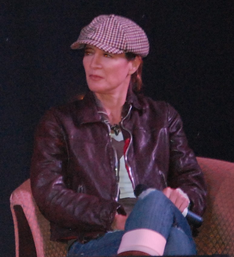 Left to right: Actresses Mia Kirshner, Daniela Sea, and Anne Ramsay, at L6, "The L Word", Fan Convention Norbreck Castle Hotel September 18-20 2009